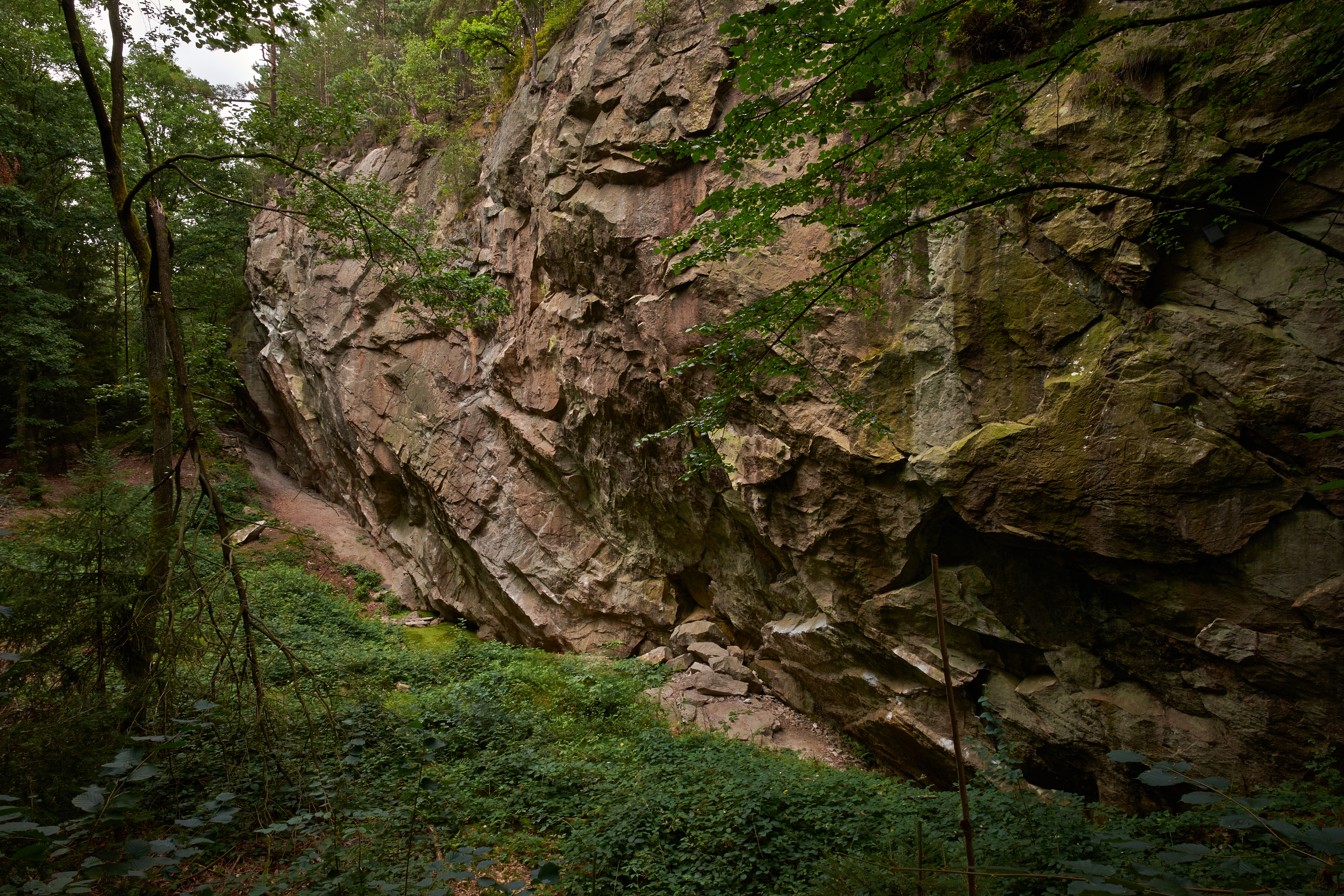 Abandoned quarry Mühlberg, Hirschau-Massenricht, district Amberg-Sulzbach, Bavaria, Germany